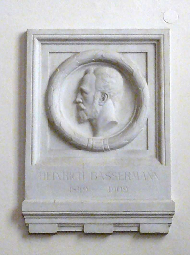 Plaque for Gustav Heinrich Bassermann